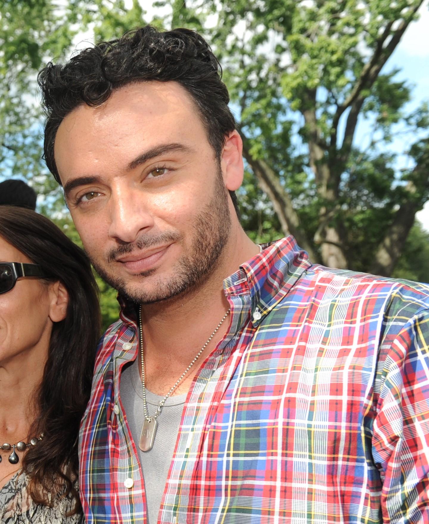 Salvatore Antonio